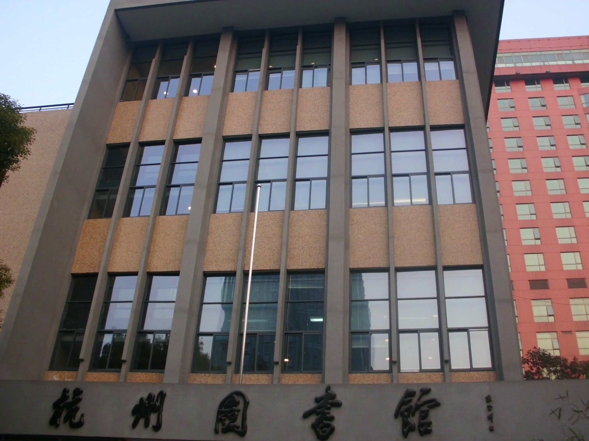 Hangzhou Library